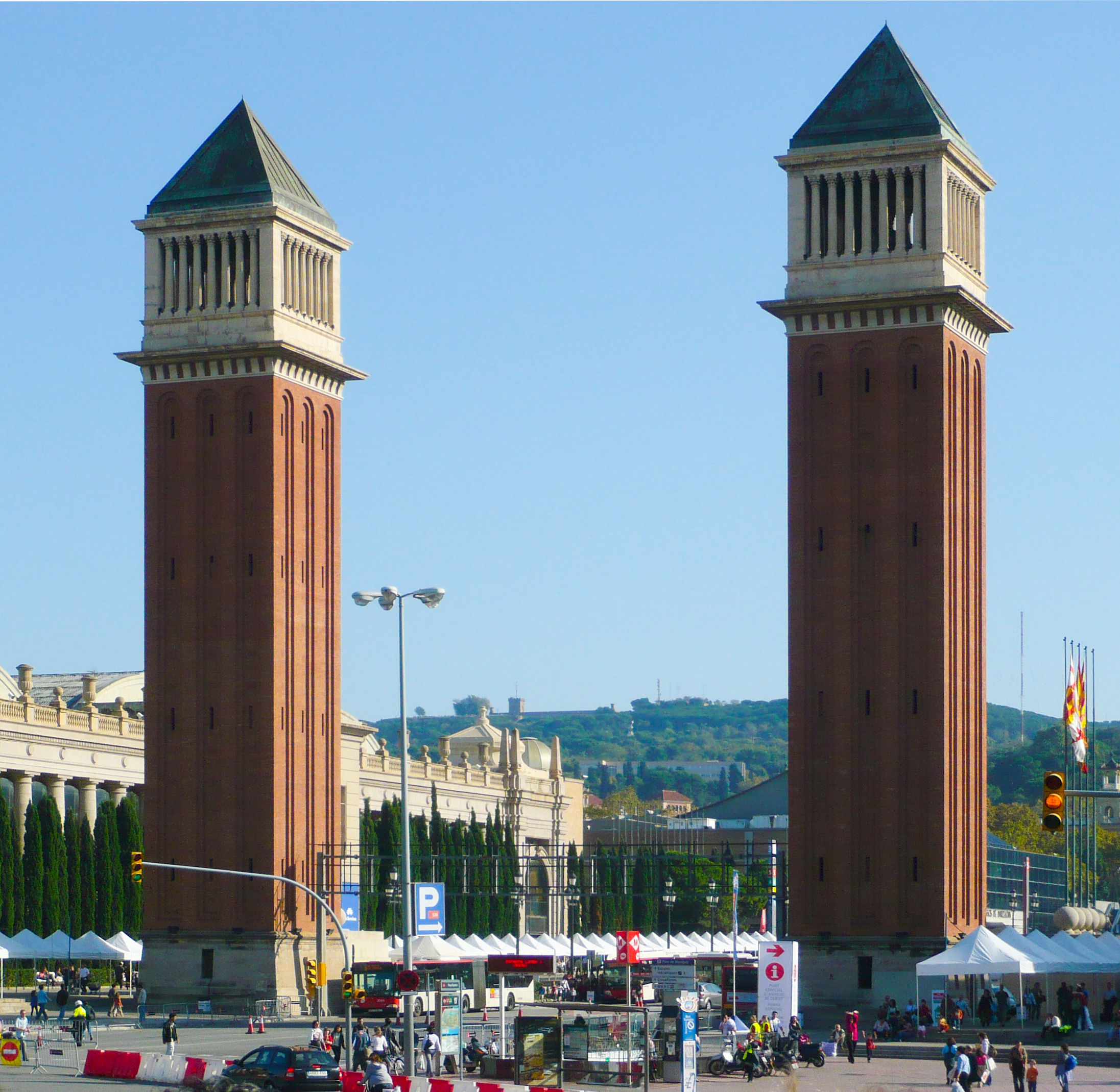 The Venetian Towers at Plaça d'Espanya, Barcelona.